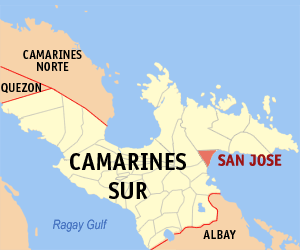 Map of Camarines Sur showing the location of San Jose